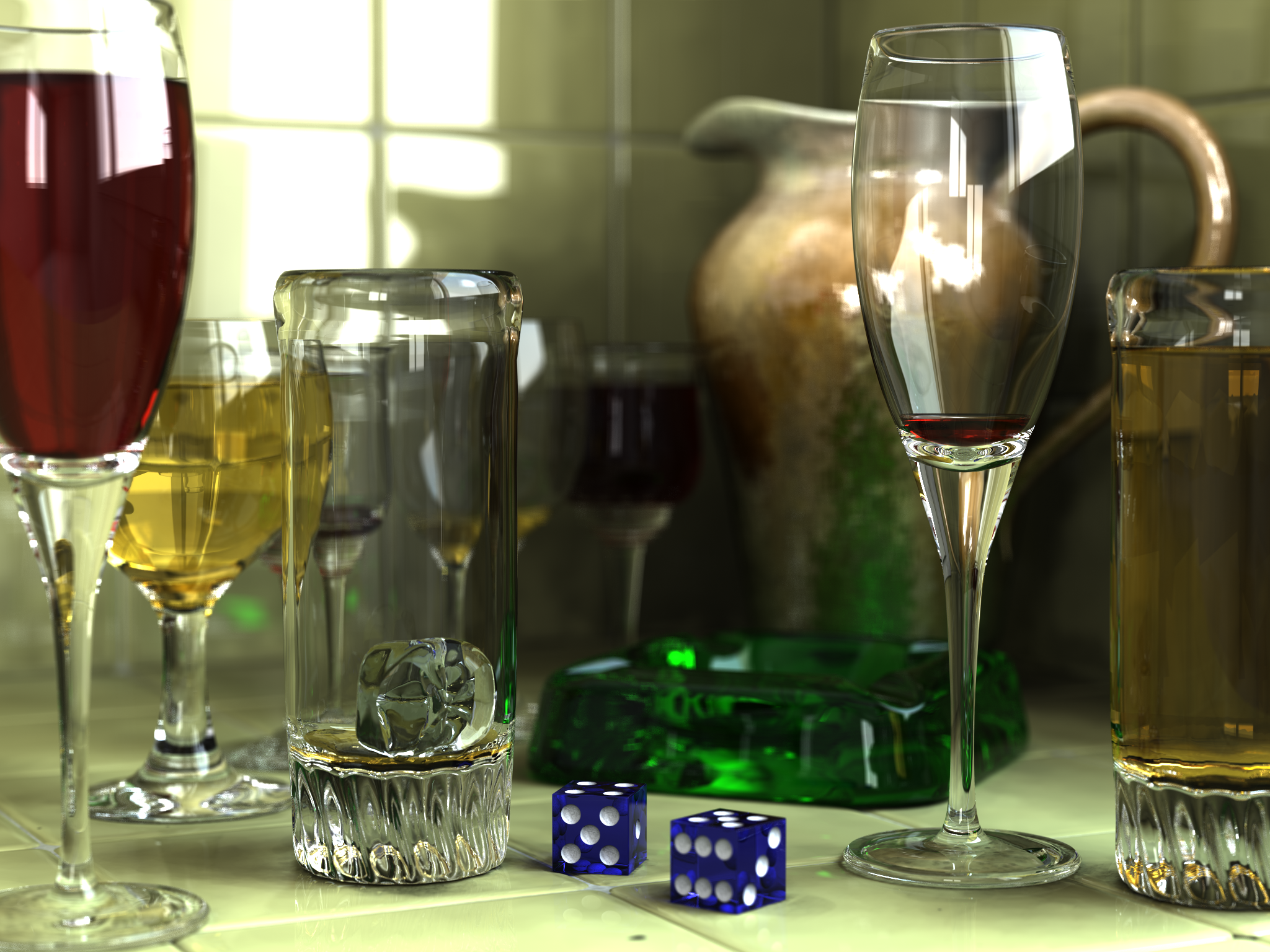 This image was created by Gilles Tran with POV-Ray 3.6 using Radiosity. The glasses, ashtray and pitcher were modeled with Rhino and the dice with Cinema 4D. The POV-Ray code for this image is available here (zip file, 6 Mb). The code is also released into the Public Domain. New, larger rendering by Deadcode.